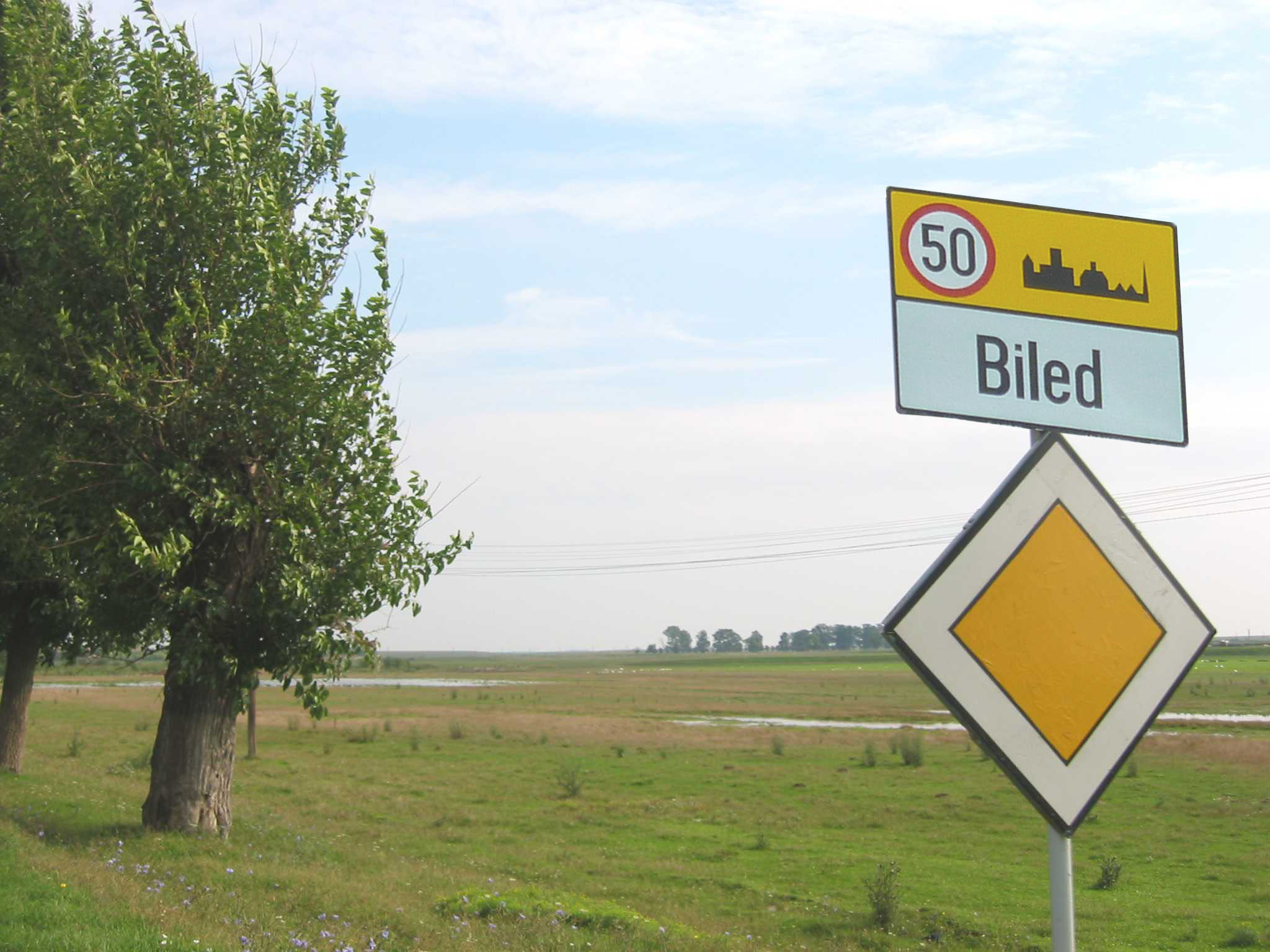 Town Sign Billed Southern Main Street